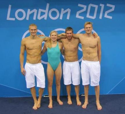 Lithuanian swimming squad at 2012 Olympic Games